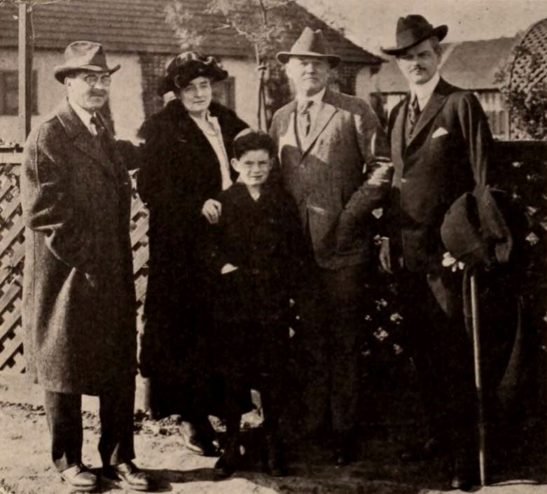 Film producer Benjamin B. Hampton with authors Kathleen Norris and her son "Buddy," Harry Leon Wilson, and Charles Gilman Norris, on page 72 of the June 19, 1920 Exhibitors Herald.